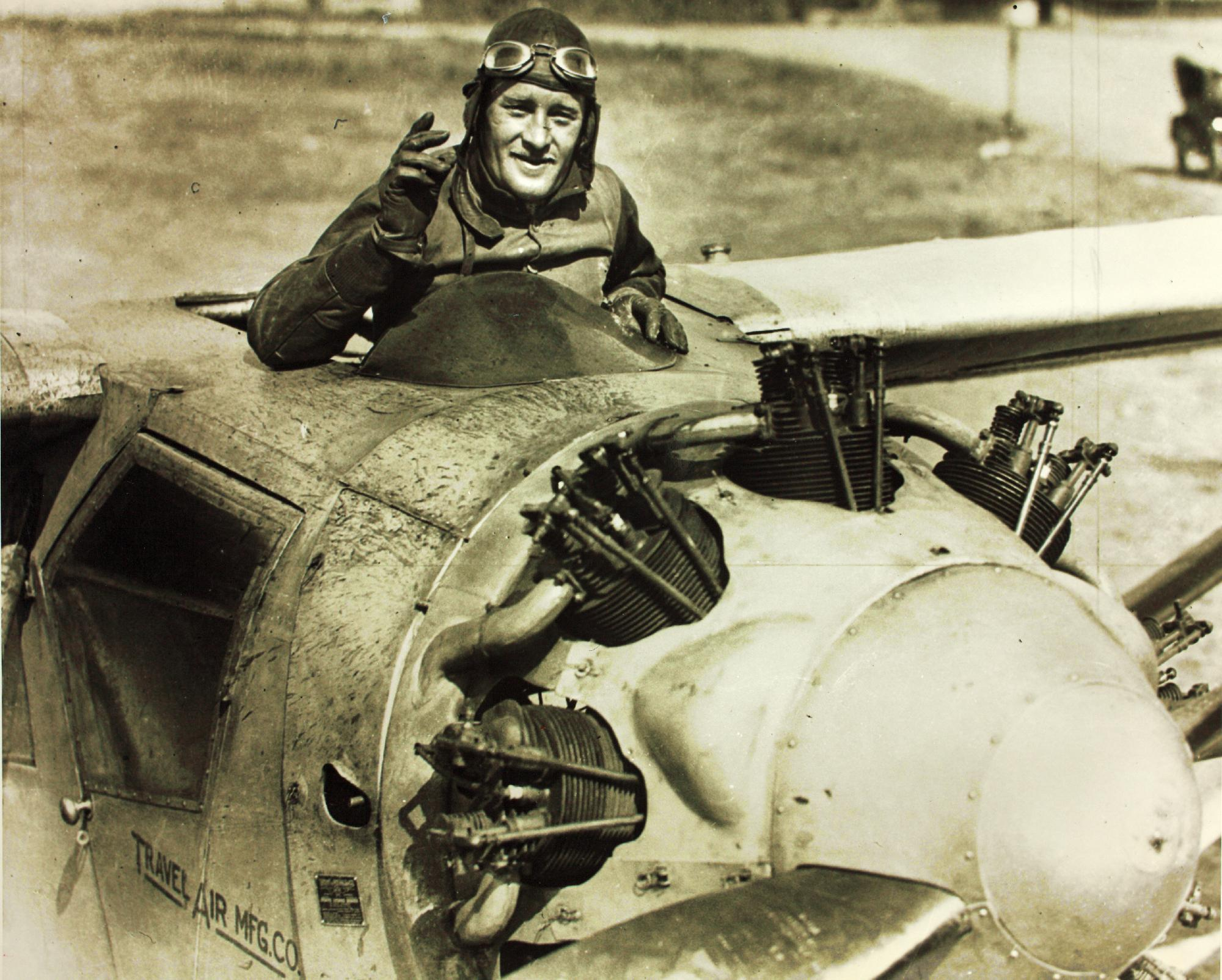 Pilot Ernie Smith in unregistered prototype Travel Air 5000